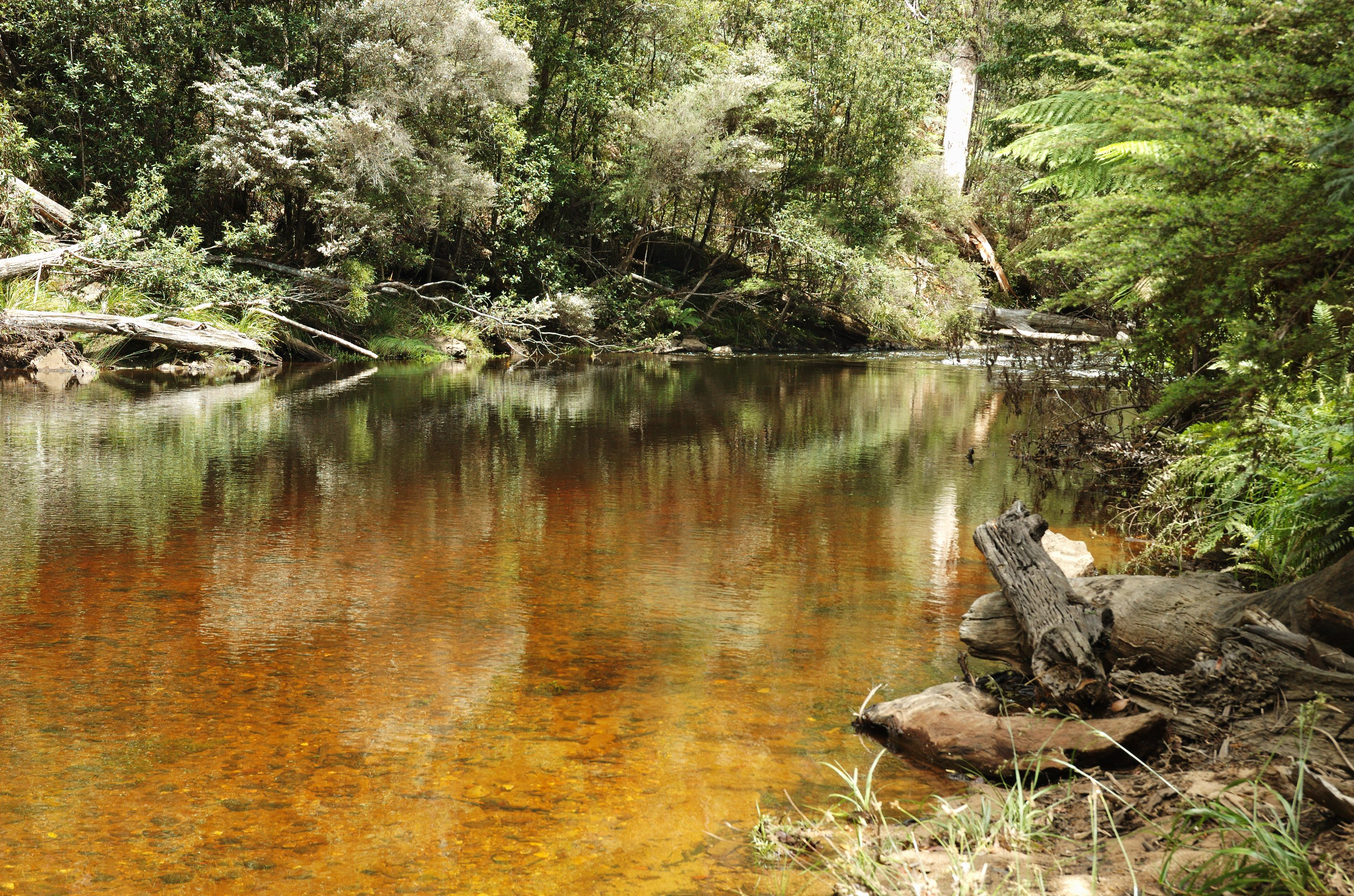 The Emu River in Fern Glade, Burnie, Tasmania.